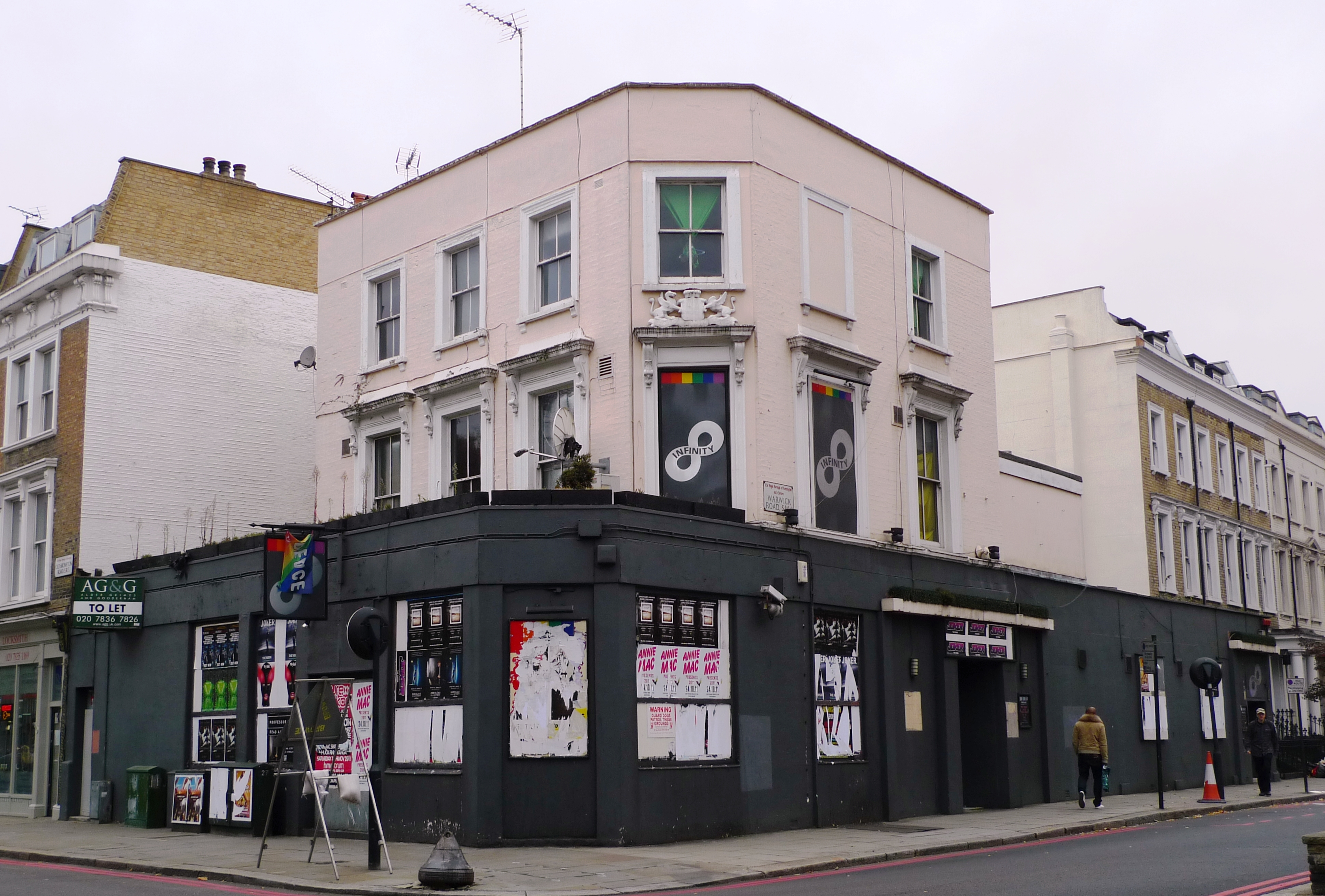 A former pub, but latterly a club (now closed). Address: 294 Old Brompton Road (formerly Richmond Road). Former Name(s): Brompton's; The Lord Ranelagh. Owner: Truman Hanbury Buxton (former). Links: Pubs Galore Beer in the Evening (Brompton's) Dead Pubs (history)